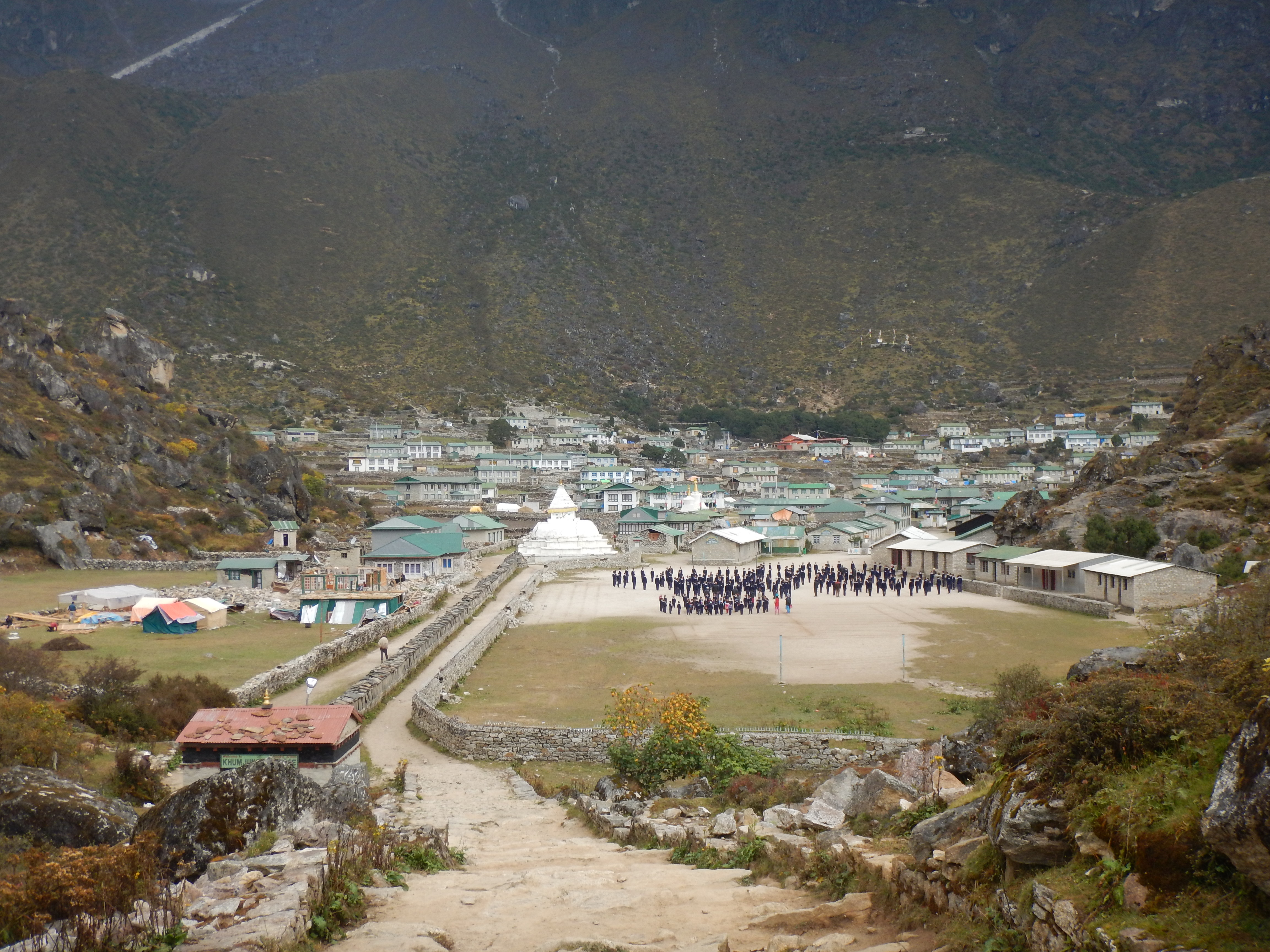 On left side the Khumjung Secundary School (Hillary School), in Khumjung, Nepal.